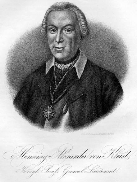 Image of Henning Alexander von Kleist 1707-1784